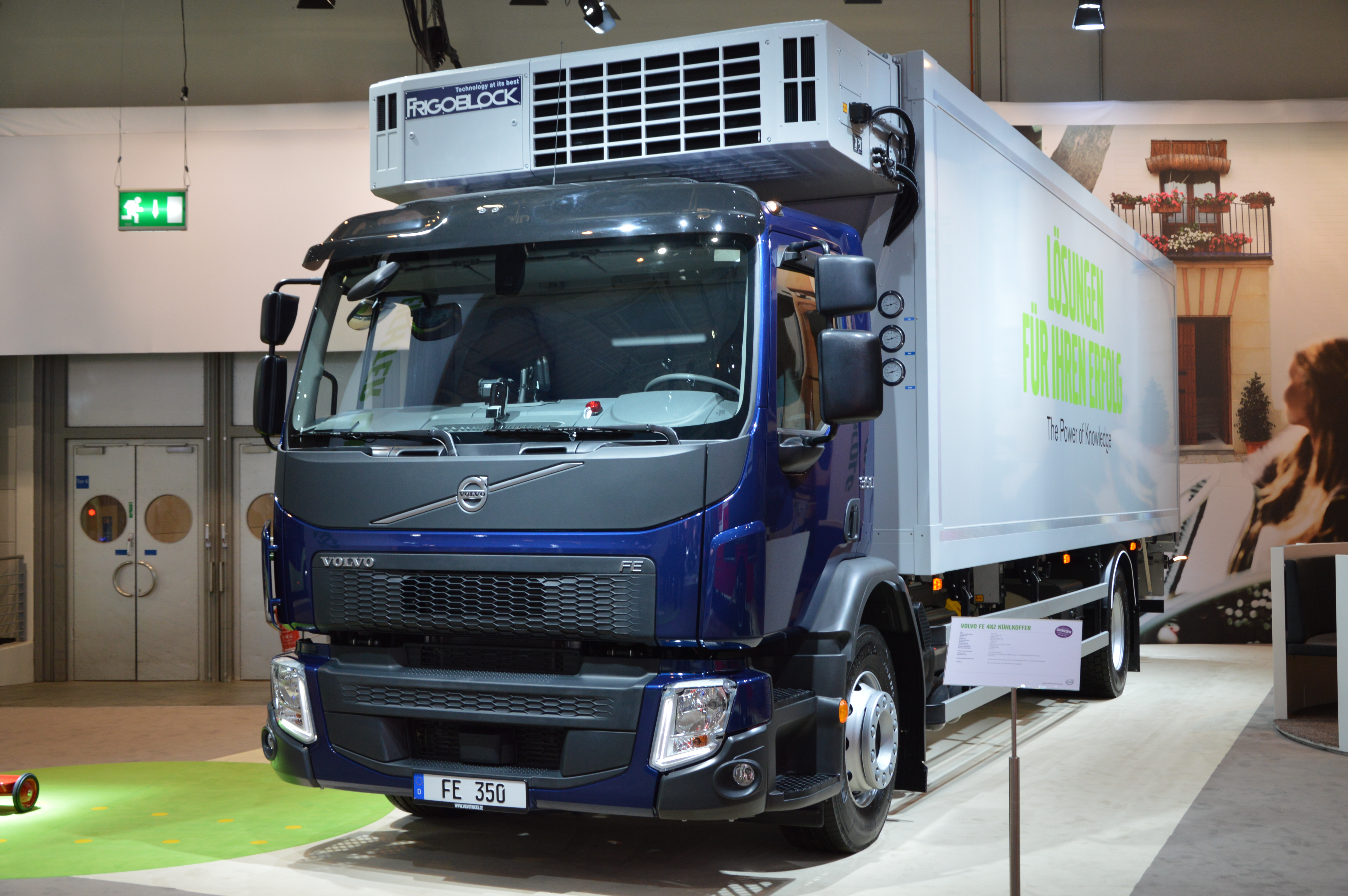 Volvo FE 4x2 cooling truck. Photo taken at IAA 2016